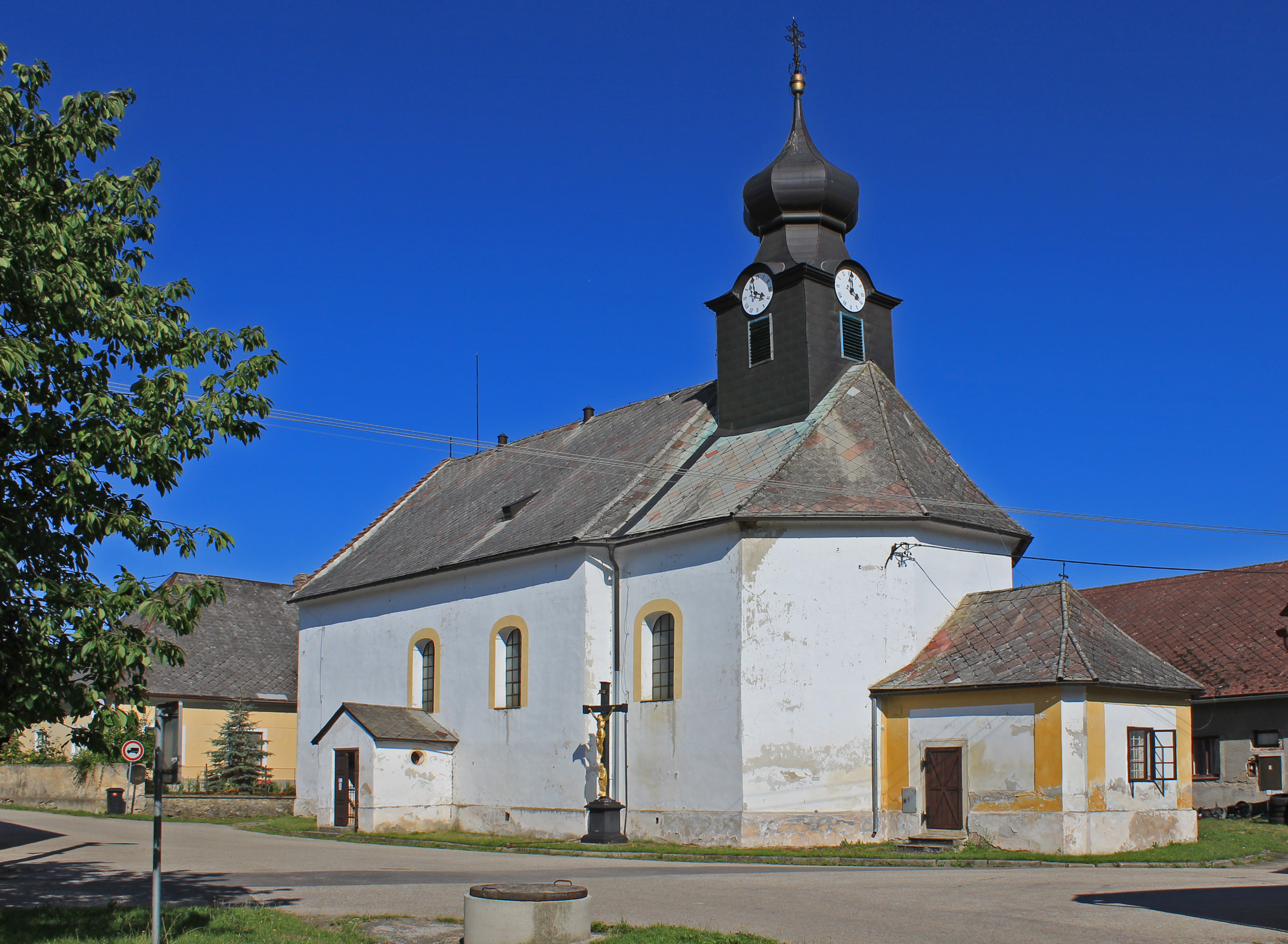 Church in Člunek, Czech Republic.